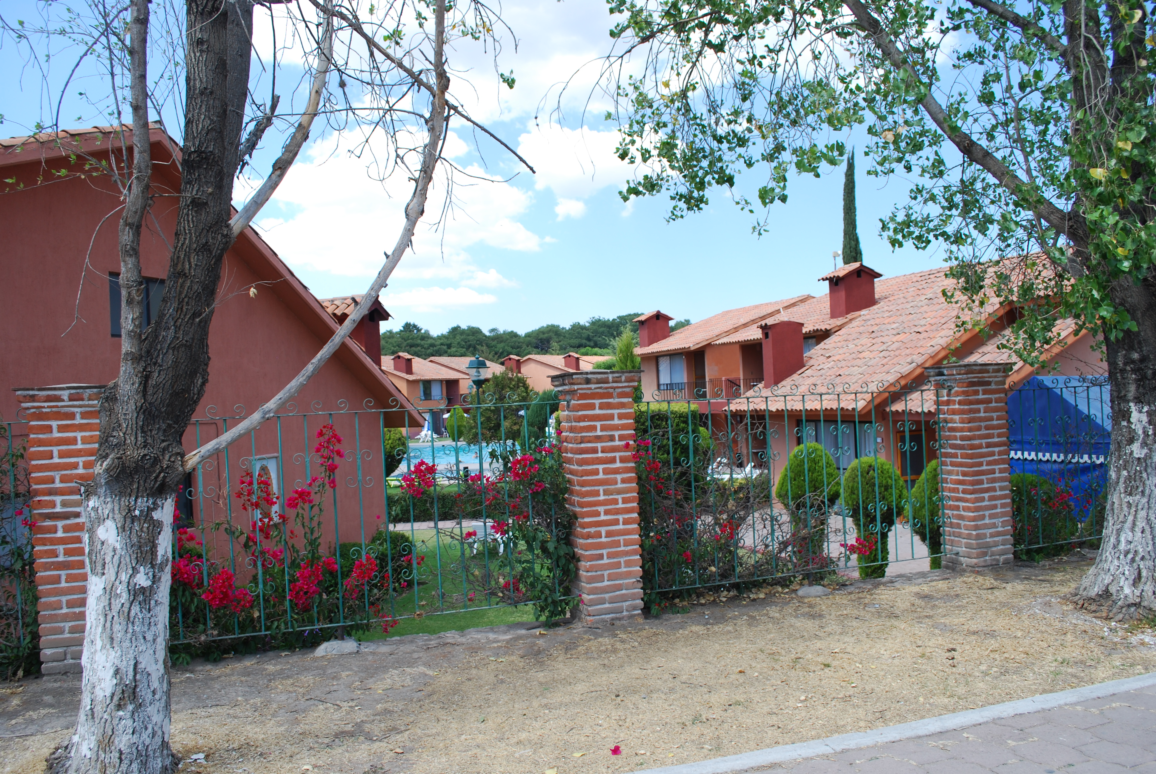 Homes in a subdivision with pool near the bull ring in Tequisquiapan, Queretaro, Mexico